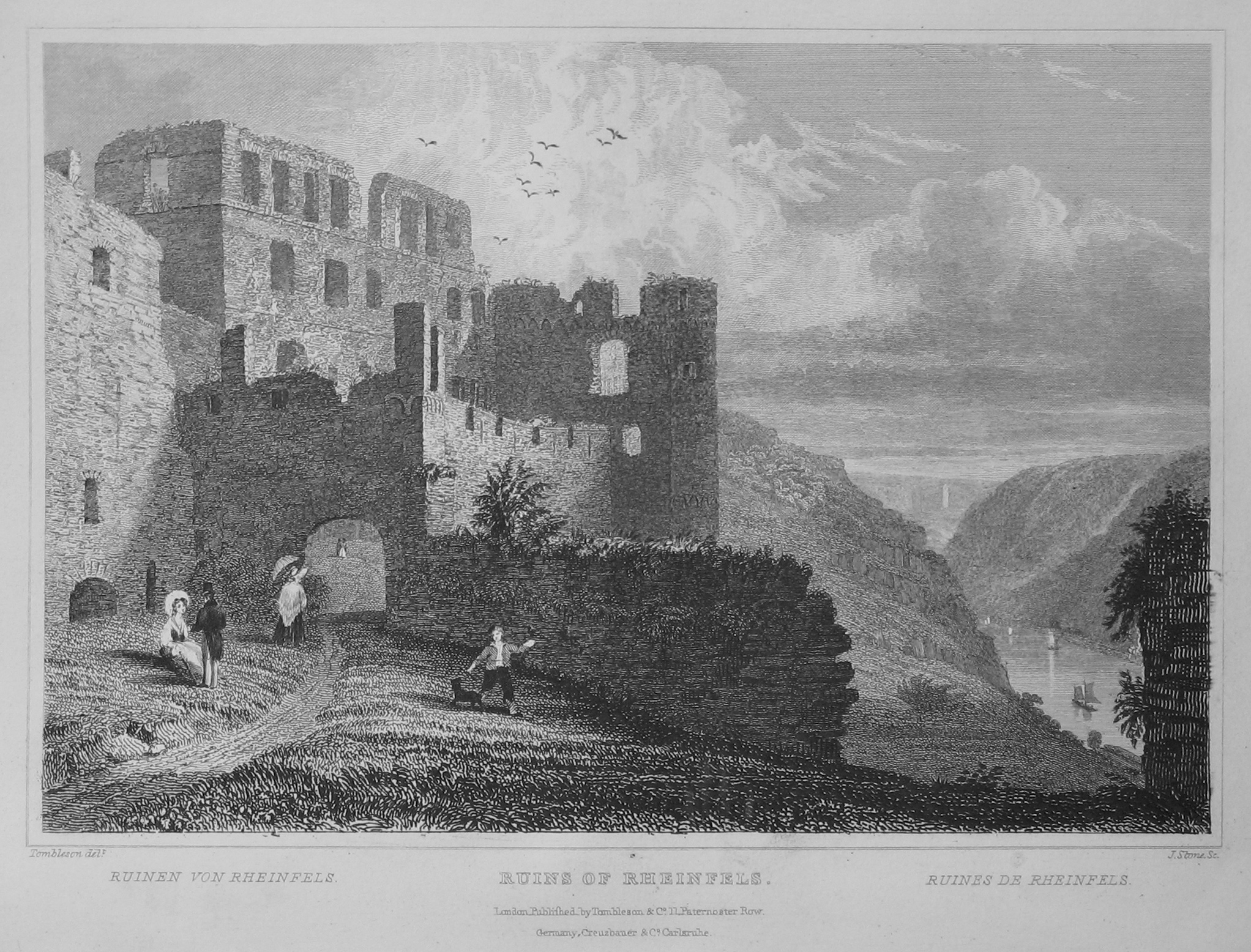 Steel engraving from "Views of the Rhine" by William Tombleson (around 1840): Ruins of Rheinfels